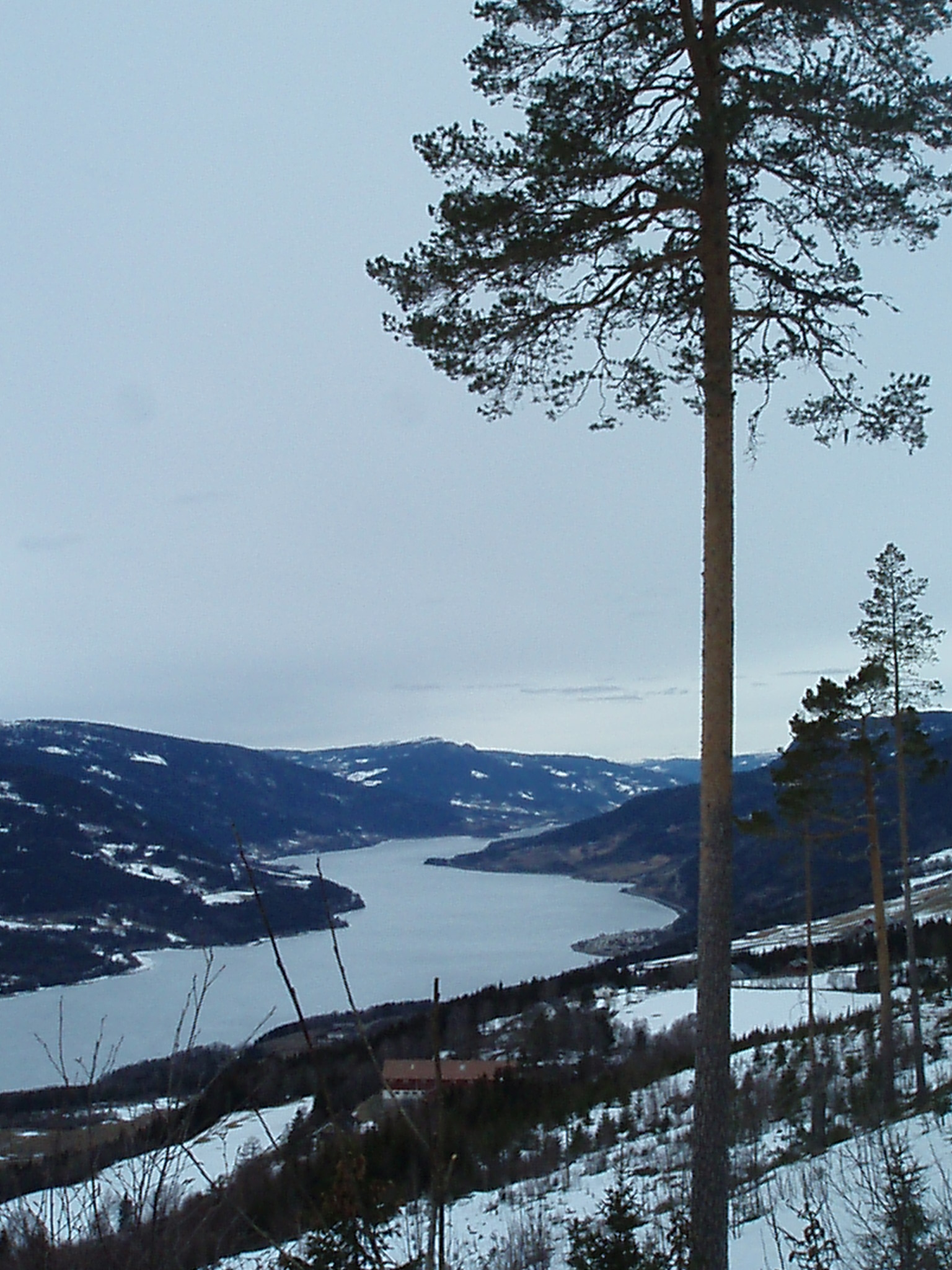 Valley Gudbrandsdalen, Oppland county, Norway. North from east side of valley at Tretten